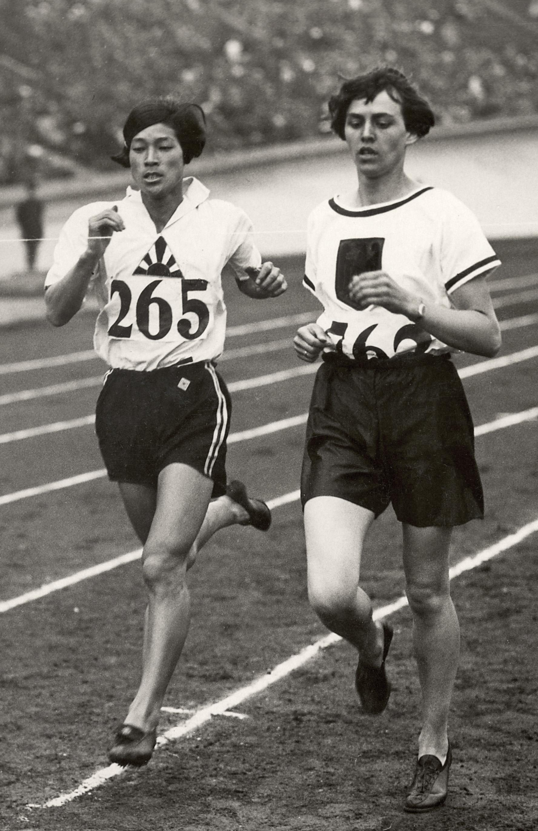 Kinue Hitomi(人見絹江), Silver Medalist of Woman's 800m Athletics at the 1928 Amsterdam Olympic Games) with Lina Radke, Gold Medalist